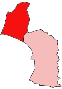 Map of Maryland County, Liberia showing Barrobo District; created with the GIMP. Made by User:Acntx.